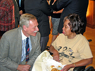 Thelma Mothershed Wair (right), one of the Little Rock Nine, with Rep. Vic Snyder at Little Rock’s monument and stamp unveiling in 2005.